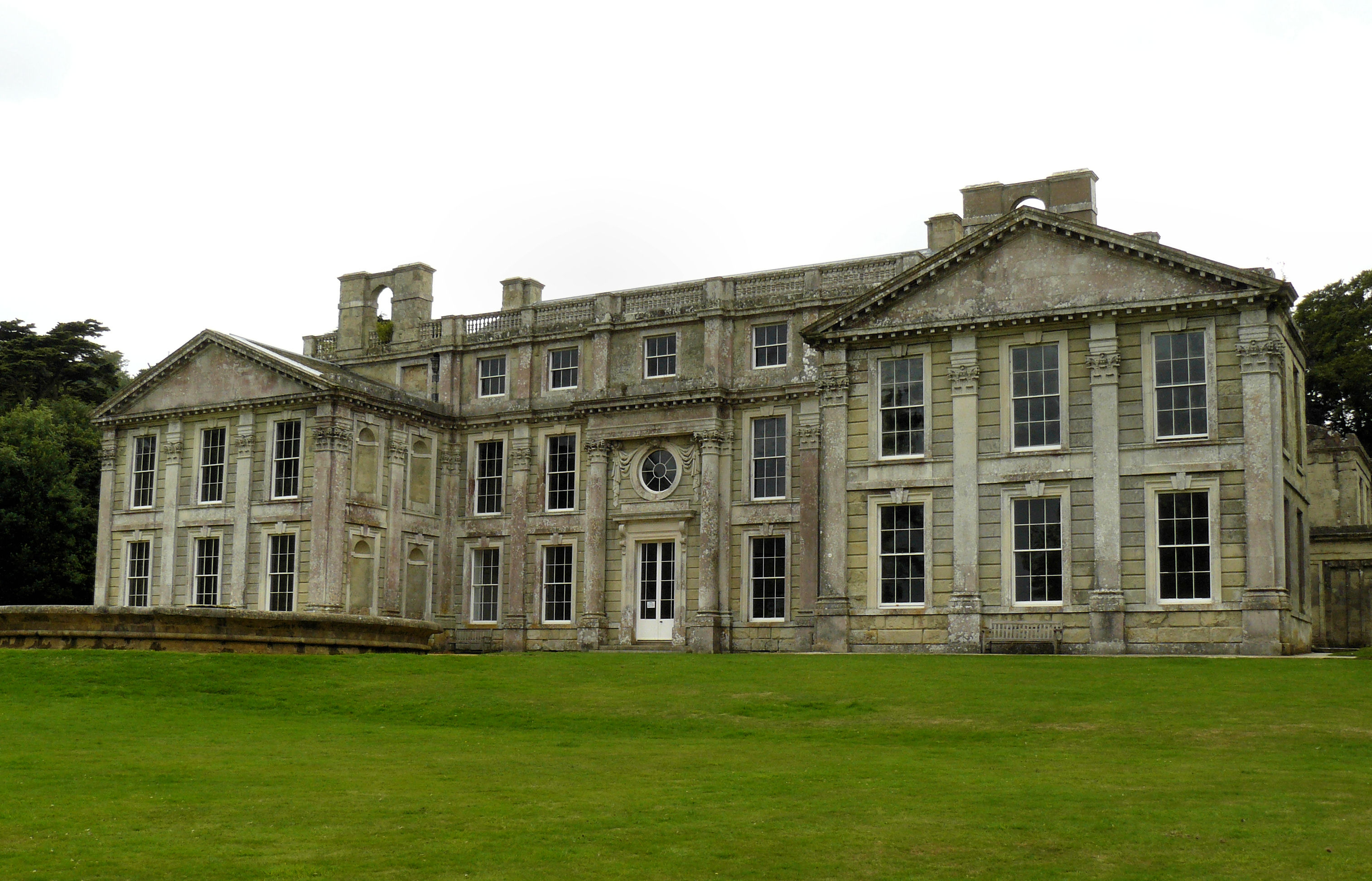 The great eastern front of Appuldurcombe House (Isle of Wight, UK).